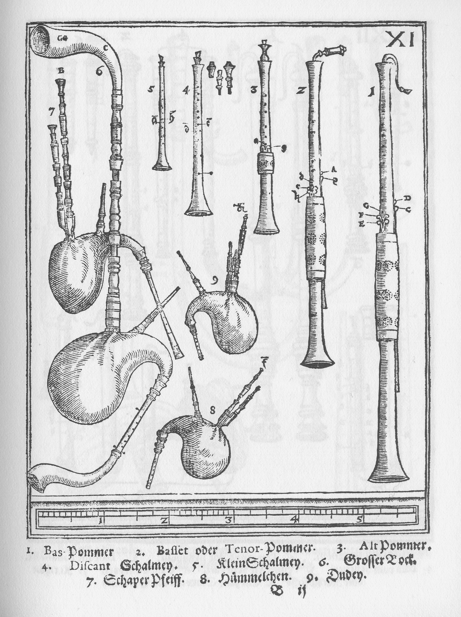 Syntagma Musicum Theatrum Instrumentorum seu Sciagraphia Wolfenbüttel 1620